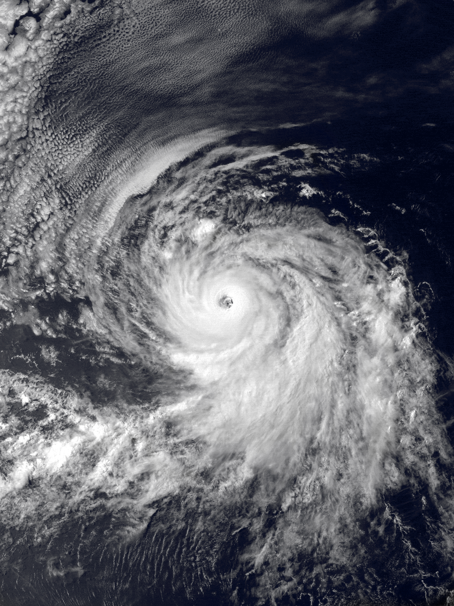 Hurricane Fernanda on August 11, 1993